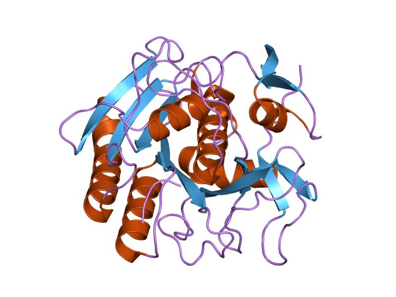 Cartoon representation of the molecular structure of protein registered with 1pek code.